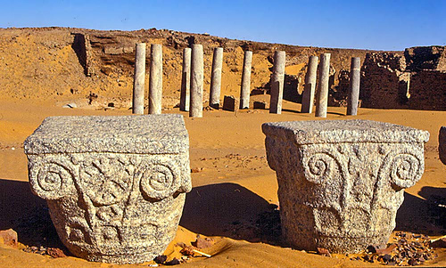 Remains of the Church of the Granite Columns, with granite capitals, in Old Dongola, Nubia. (Sudan)